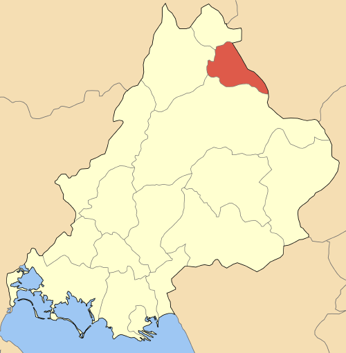 Locator map of Theodoriana community (Κοινότητα Θεοδωριάνων) in Arta prefecture (Νομός Άρτας) in Greece.